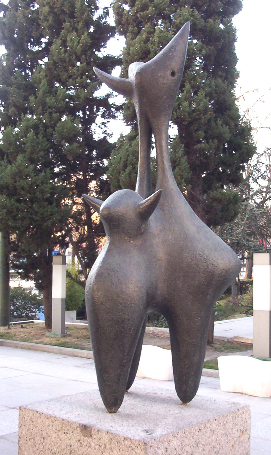 Iberian bulls (c. 1958–1960). Bronze sculpture by Alberto Sánchez Pérez (1895–1962). Dimensions: 195 x 80 x 80 cm. It is at the Open-Air Sculpture Museum of the Paseo de la Castellana (avenue) in Madrid (Spain).